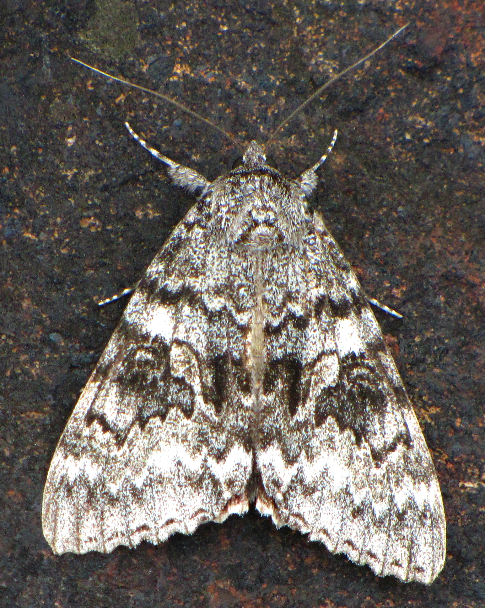 Semirelict Underwing (Catocala semirelicta) moth, Shirleys Bay, Ottawa, Ontario, Canada